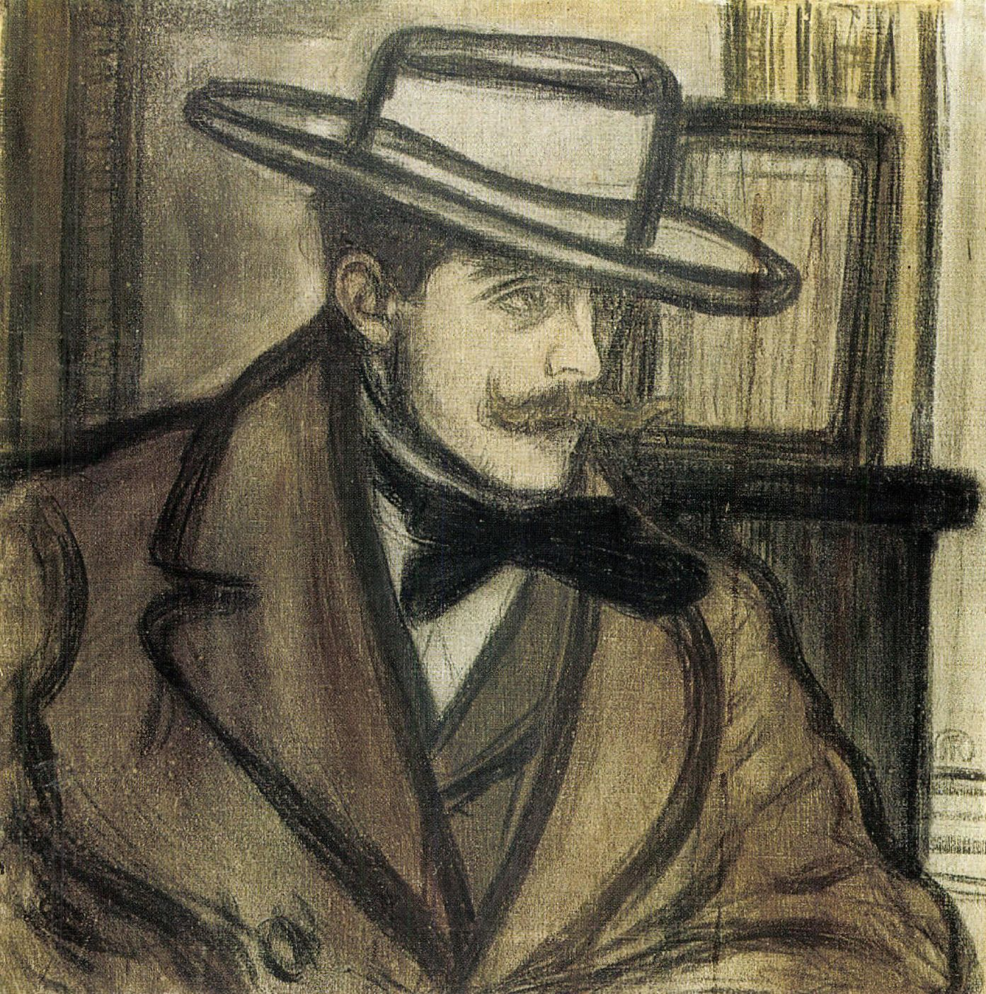 James Pitcairn Knowles (1863-1954): Scots descent artist, friend of Rippl-Rónai